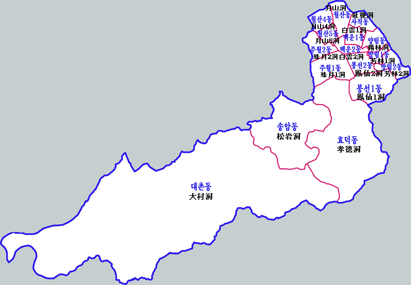 Namgu-gwangju